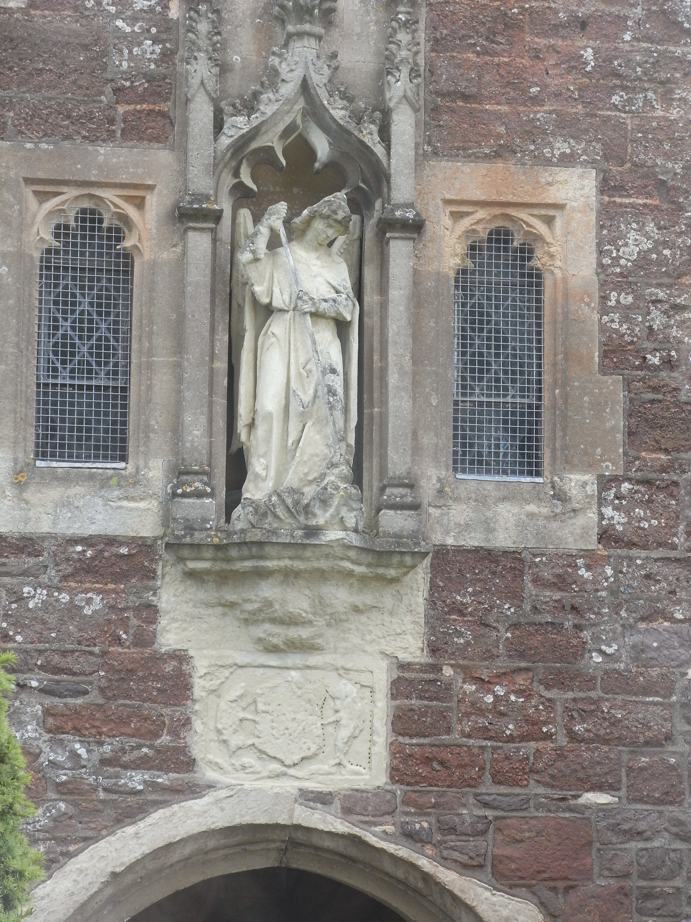 Niche on the porch of St Michael and All Angels parish church, Alphington, Devon. The statue is of St Michael slaying a dragon. Below it is a relief of the Courtenay family arms, worn away with only the supporters of a boar and dolphin still recognisable.